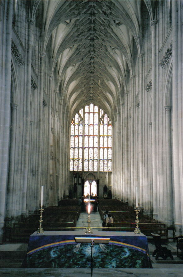 View along the nave of Winchester Cathedral to the west door. (C) Gerry Lynch, 2003.